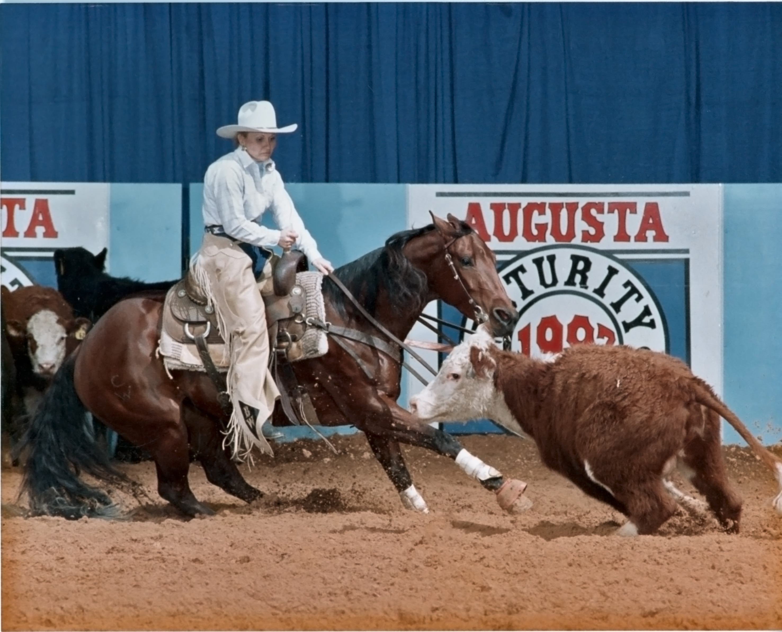 Docs Fashion Model being shown at the Augusta Cutting Horse Futurity (4 yr. olds)